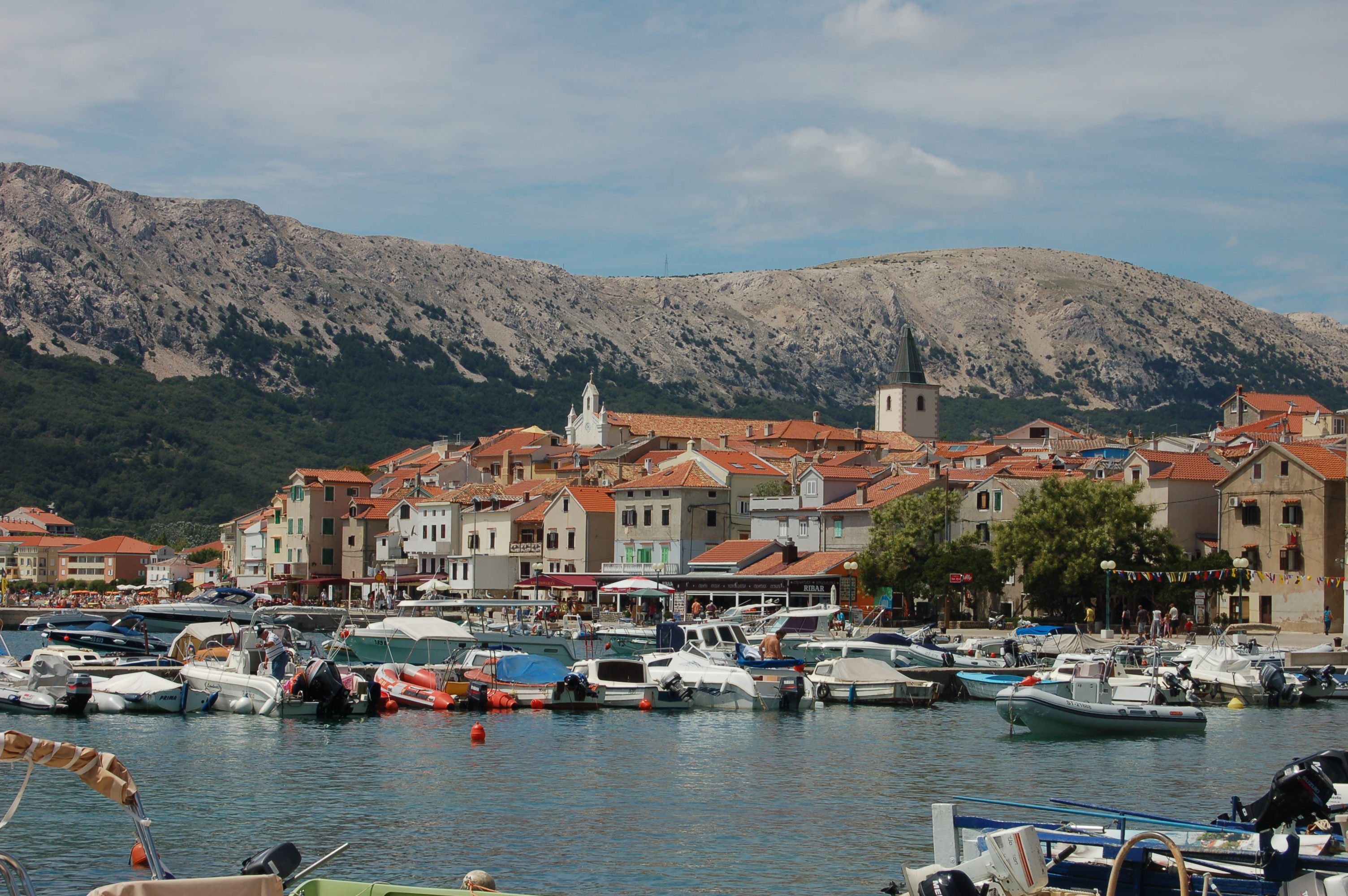 Baška on Krk Island, Croatia